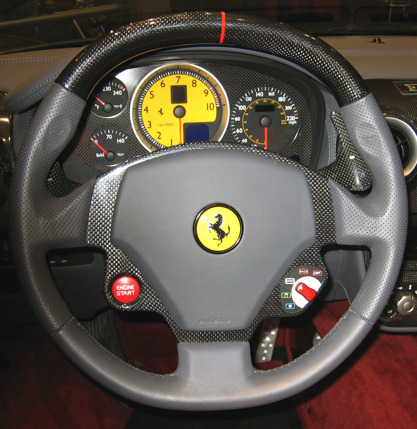 The steering wheel and dashboard of a Ferrari F430 at the 2006 Chicago Auto Show